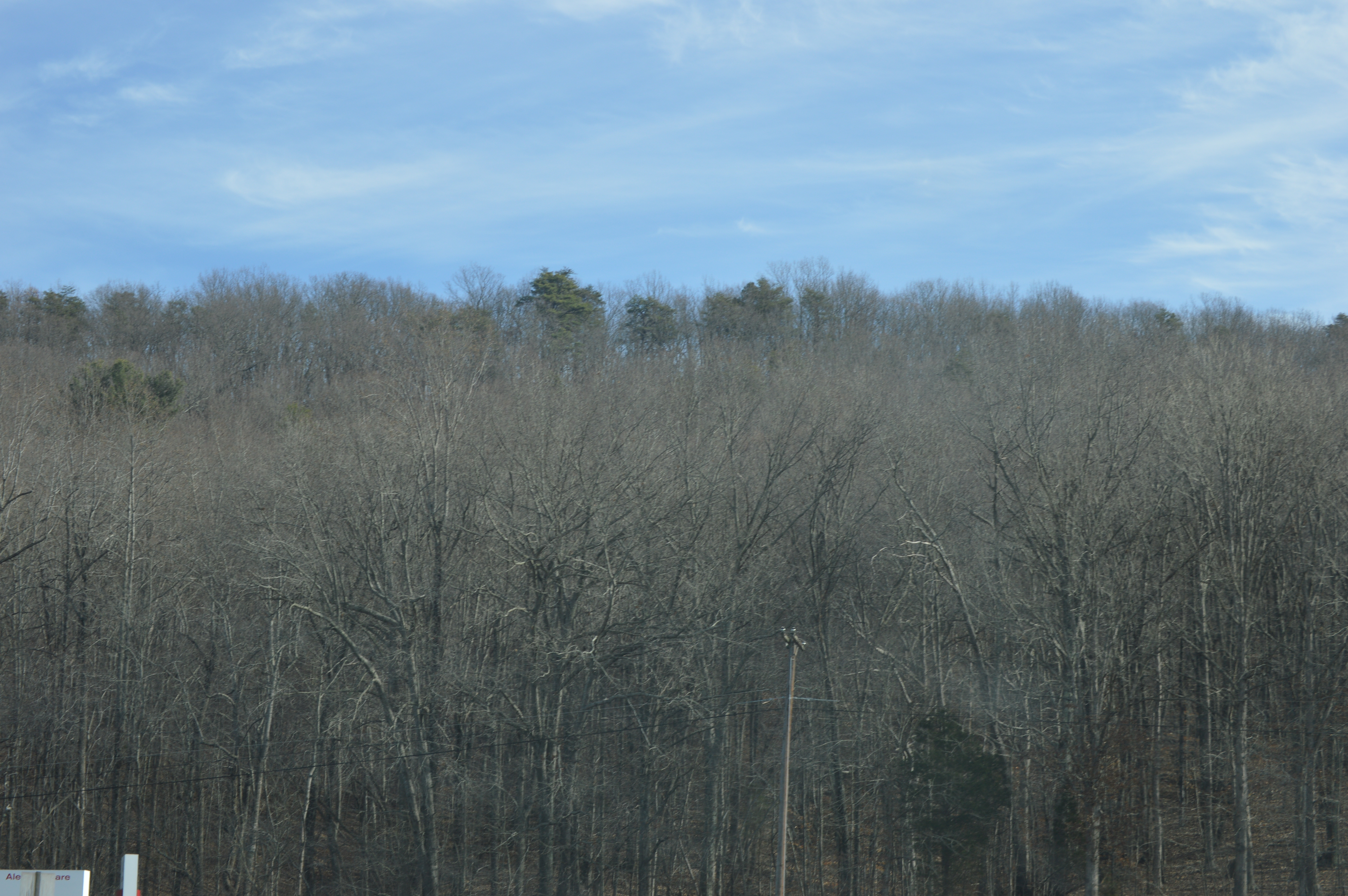 Looking up to the summit of Mount Athos from Mount Athos Road east of Lynchburg in northern Campbell County, Virginia, United States. The namesake Mount Athos estate, a ruin since an 1876 fire, sits at the summit of the mountain; it is listed on the National Register of Historic Places.